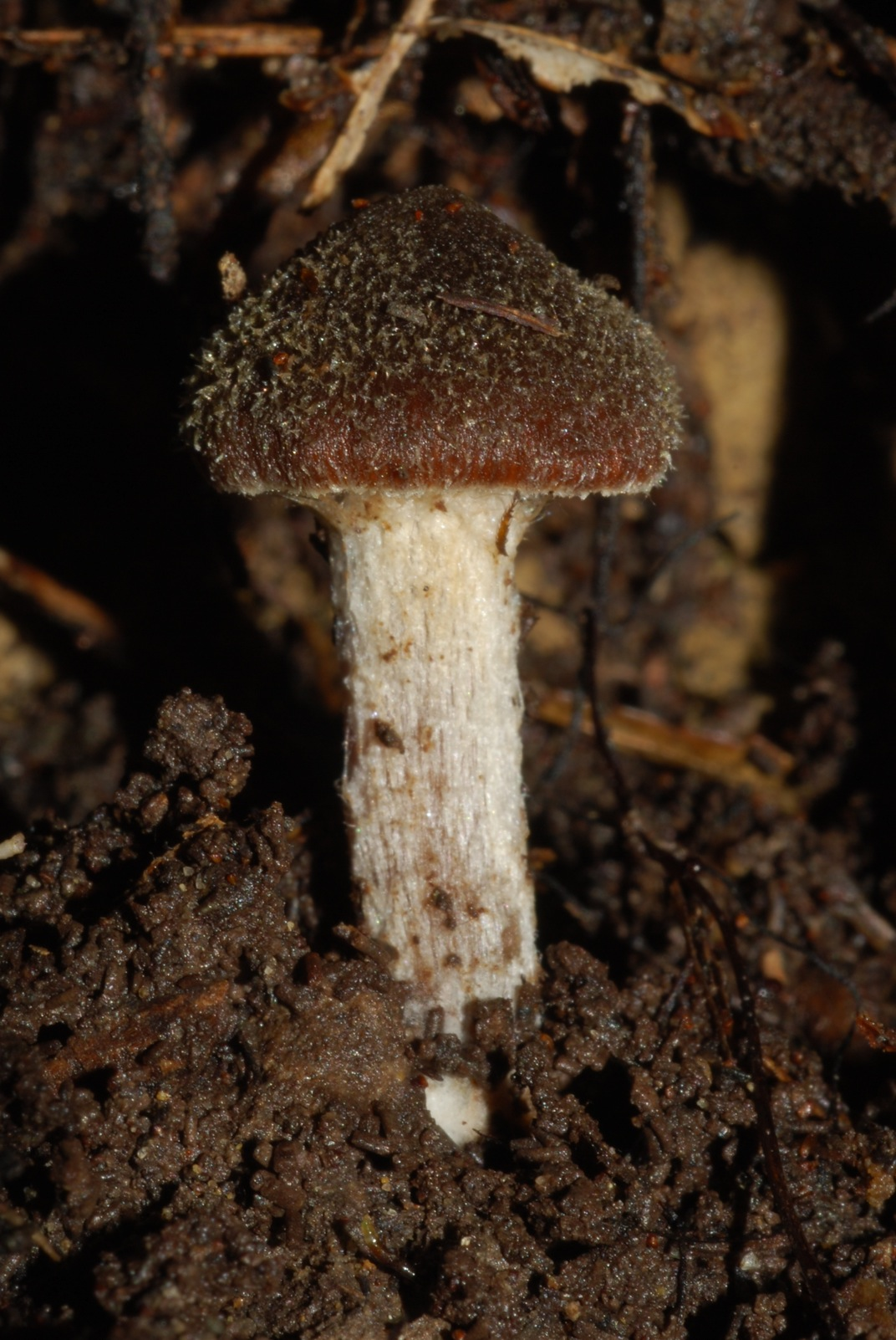 Inocybe calamistratoides (E. Horak) Location: Kaipara harbour, Auckland, New Zealand. Notes: On soil under tree ferns in native New Zealand bush.